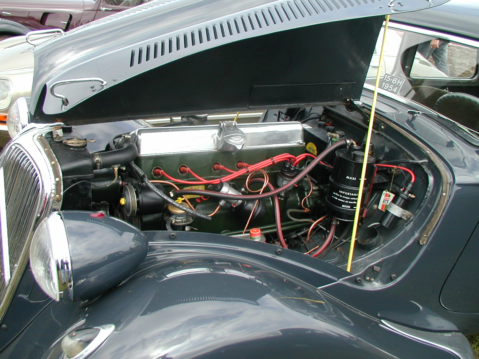 The engine of the Citroën Traction Avant 15 - 6 cylindre. Picture : Gérard Delafond